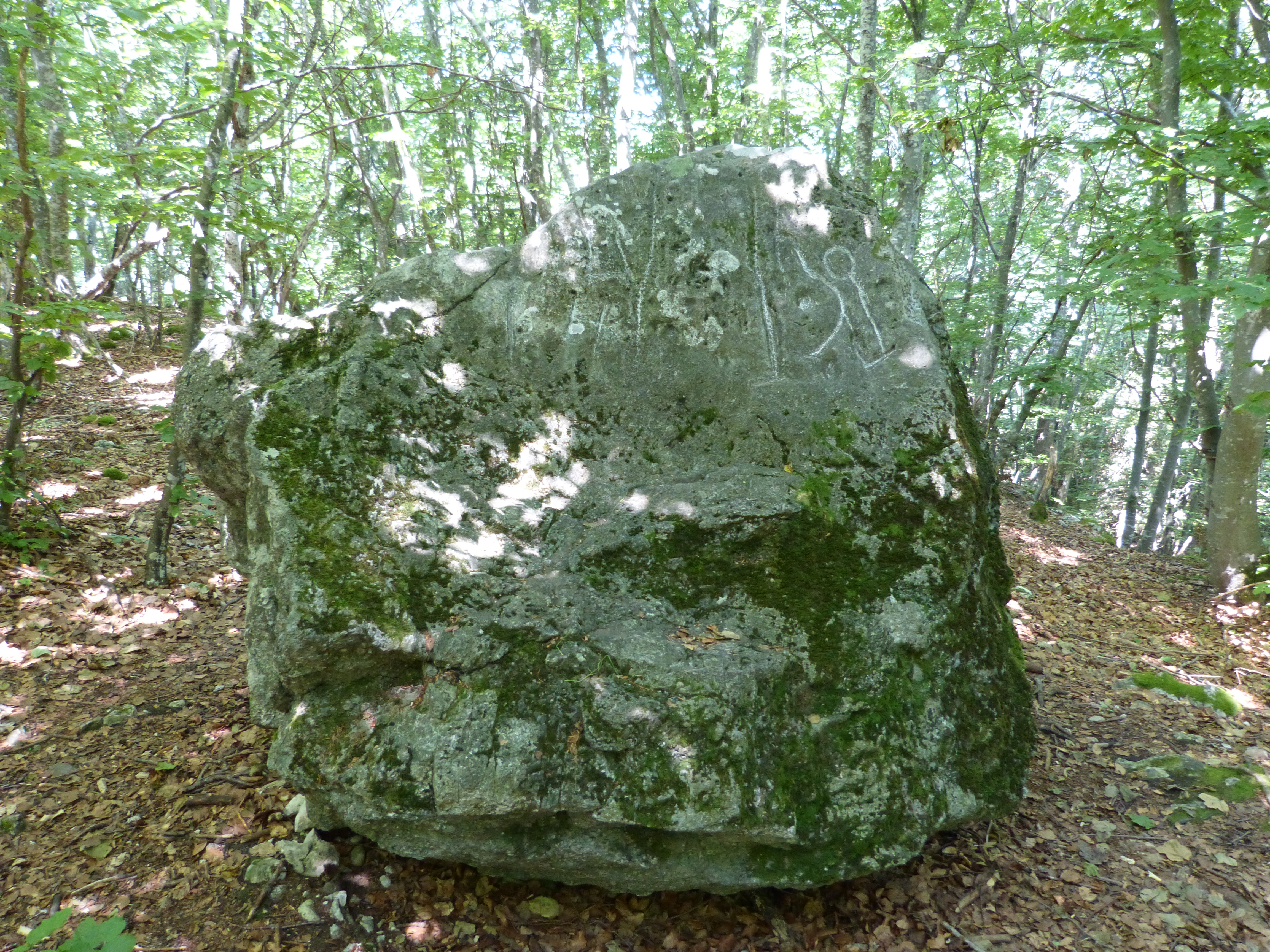 Stone cups Gottettes.